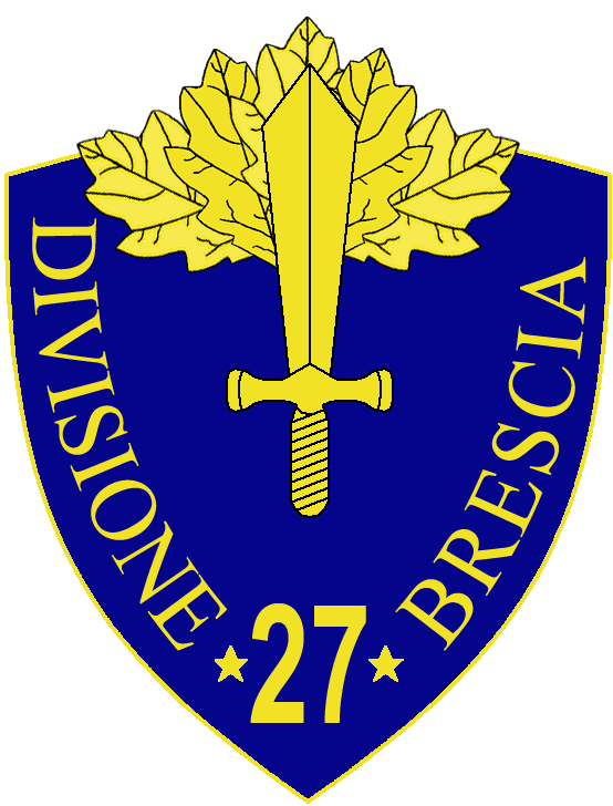 27a Divisione Fanteria Brescia insignia, Regio Esercito, Italy, WWII